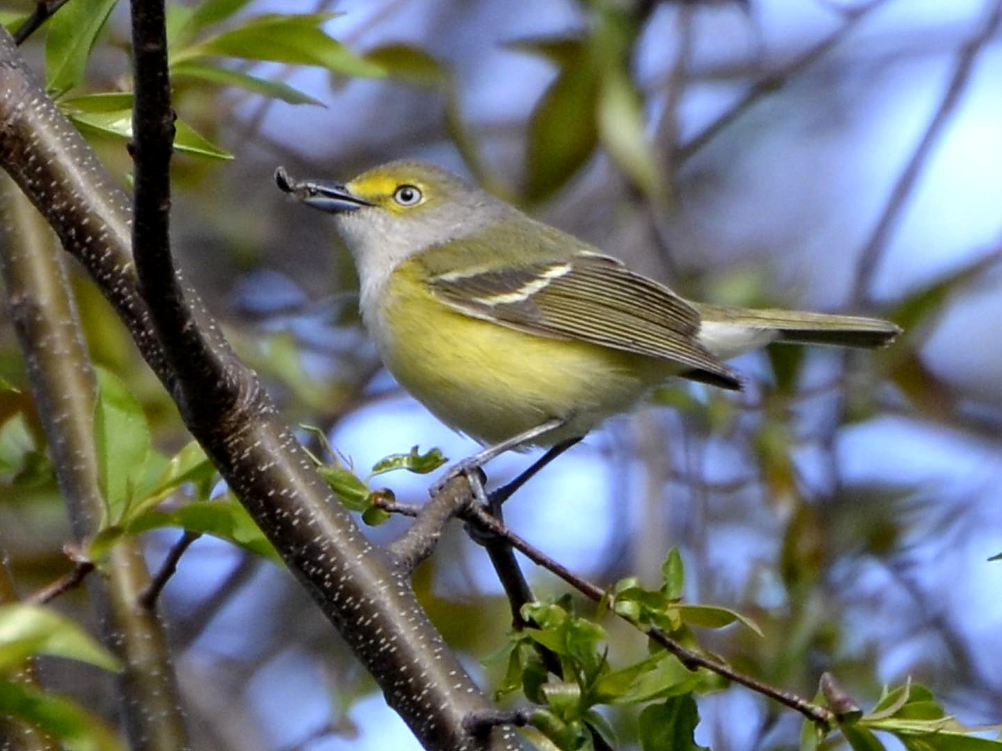 White-eyed vireo at Carondelet Park in St. Louis City, Missouri on 4/13/13